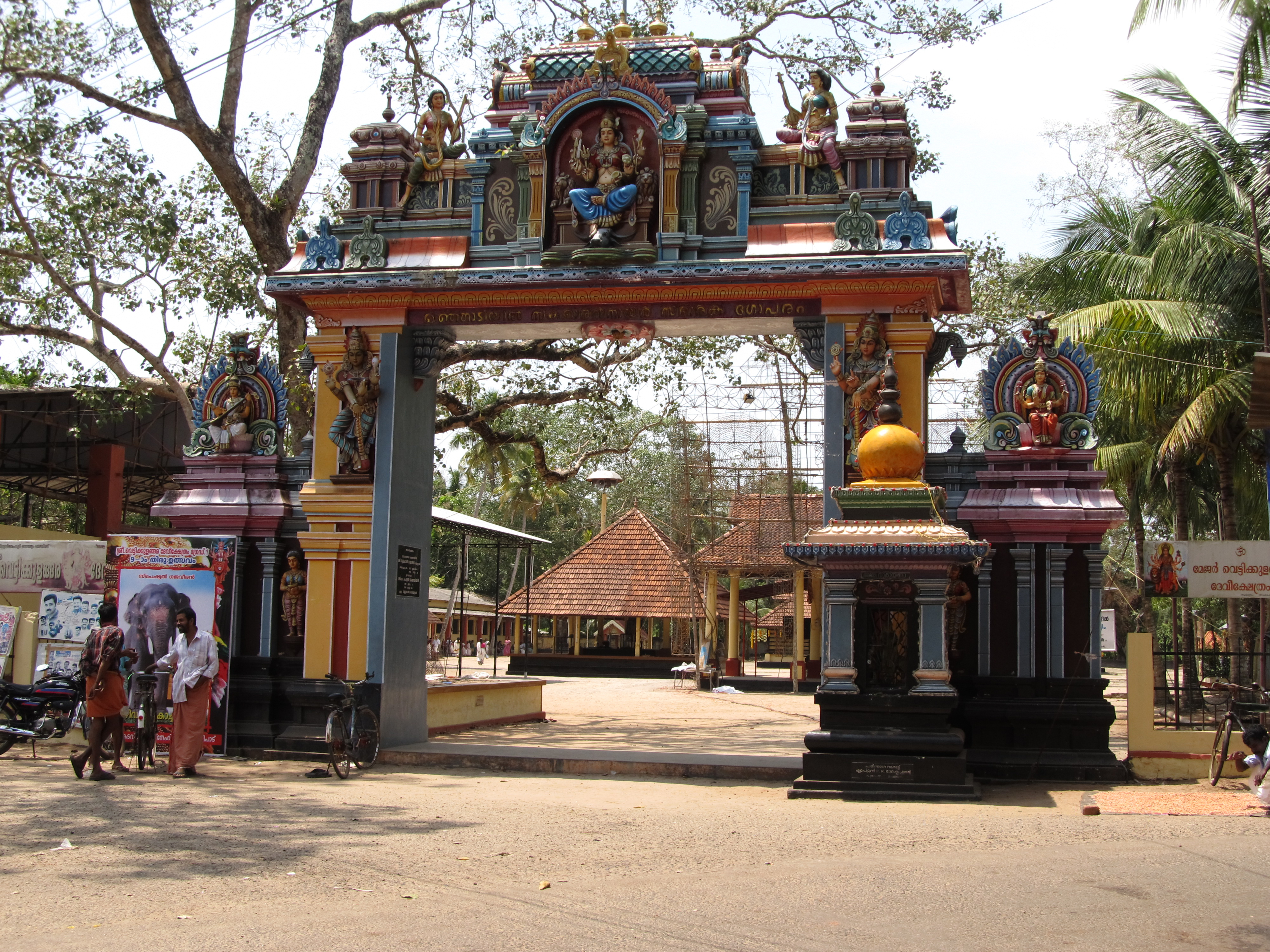 Vettikulangara Devi temple